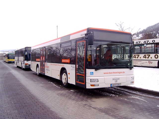 MAN A20 NÜ xxx bus in Meiningen, Germany.